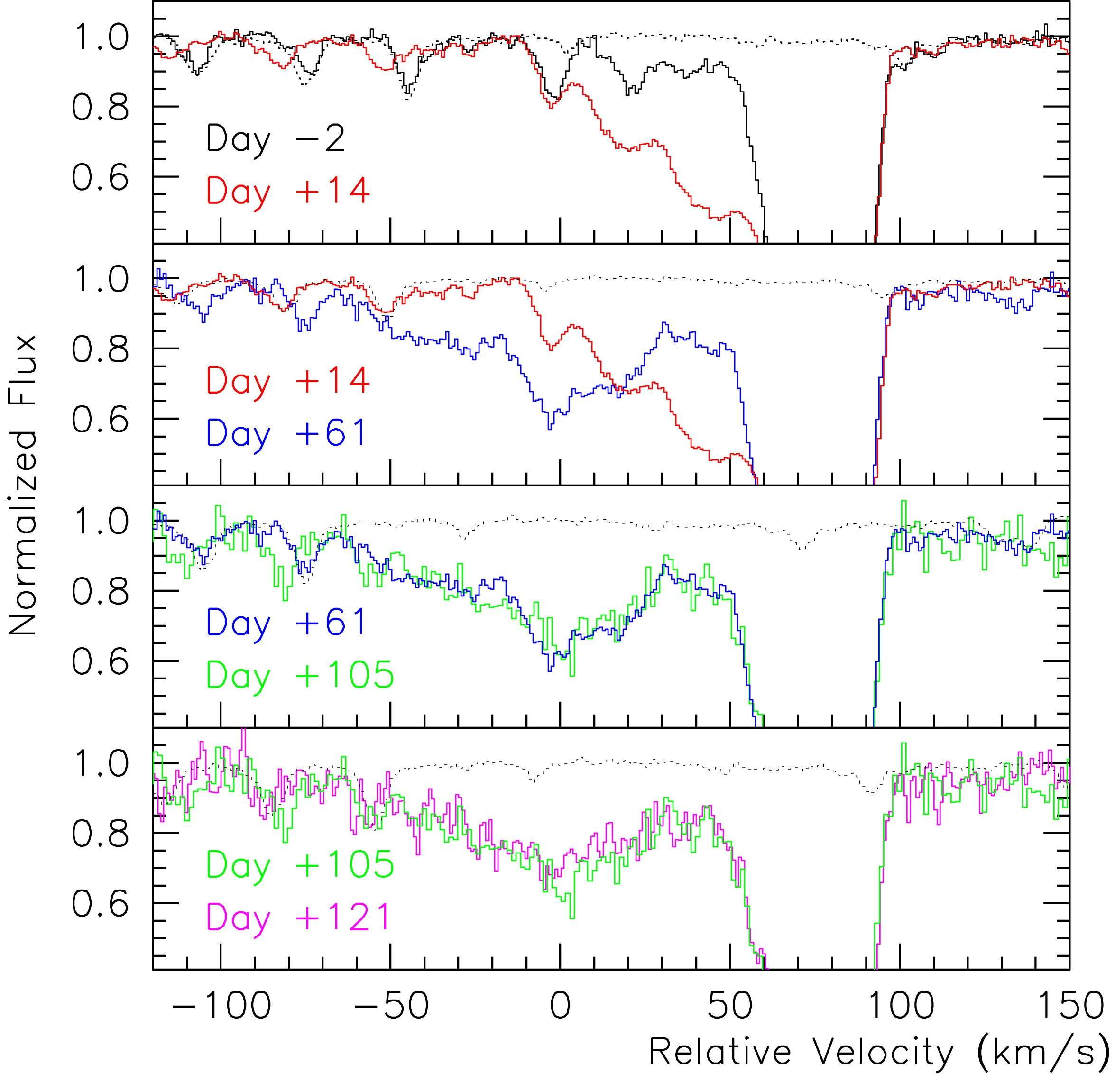 Evolution of the Sodium line in the spectrum of the supernova SN 2006X as a function of time since the supernova's maximum light in the blue. Four of the spectra were obtained with UVES on ESO's VLT and one with HIRES on the Keck. The spectra are shown with respect to a relative velocity and have been normalised to their continuum. In each panel, the dotted curve traces the atmospheric absorption spectrum.